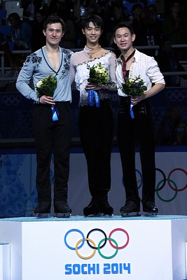 2014 Winter Olympic - Figure skating Men podium - Yuzuru Hanyu(1st), Patrick Chan (2nd), Denis Ten (3rd).